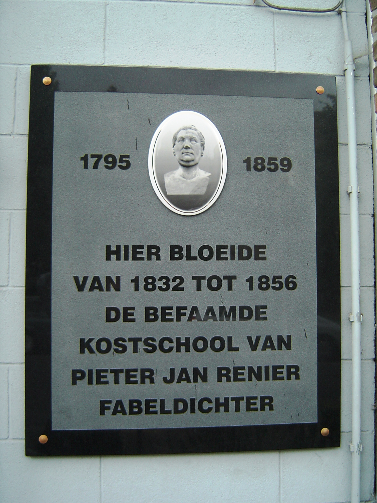 The new commemorative plaque on one of the houses where Pieter Jan Renier kept his boarding-school. It was inaugurated July 11th 2009.